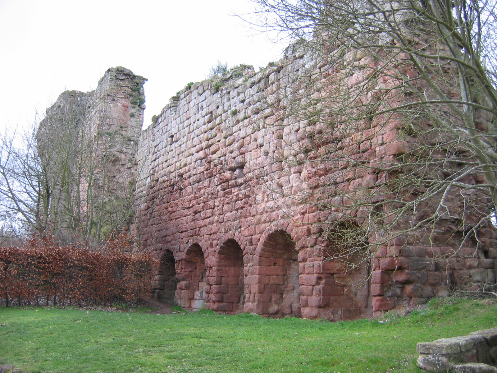 North wall of Roslin Castle, near Edinburgh, Scotland.